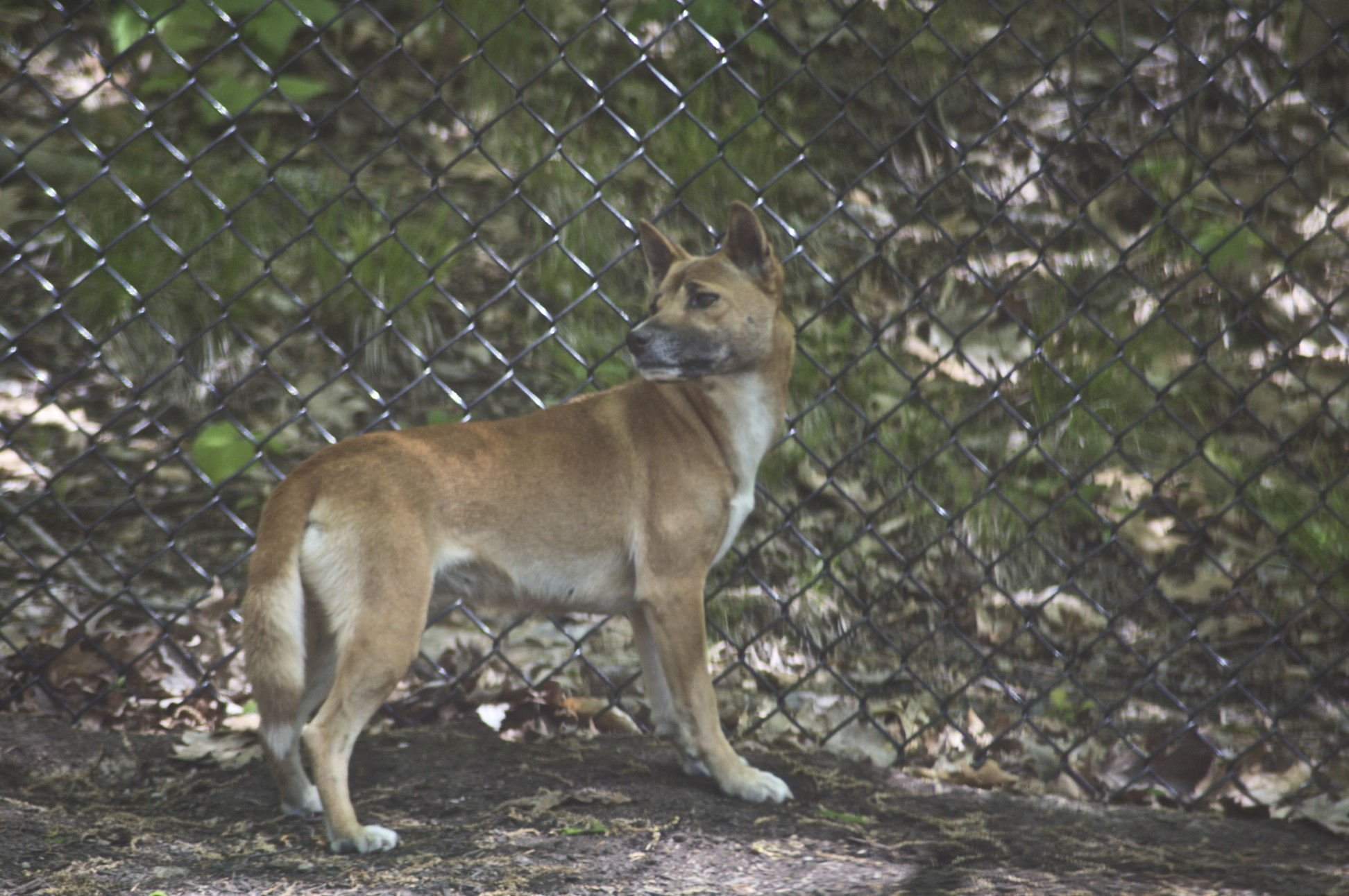 New Guinea Singing Dog